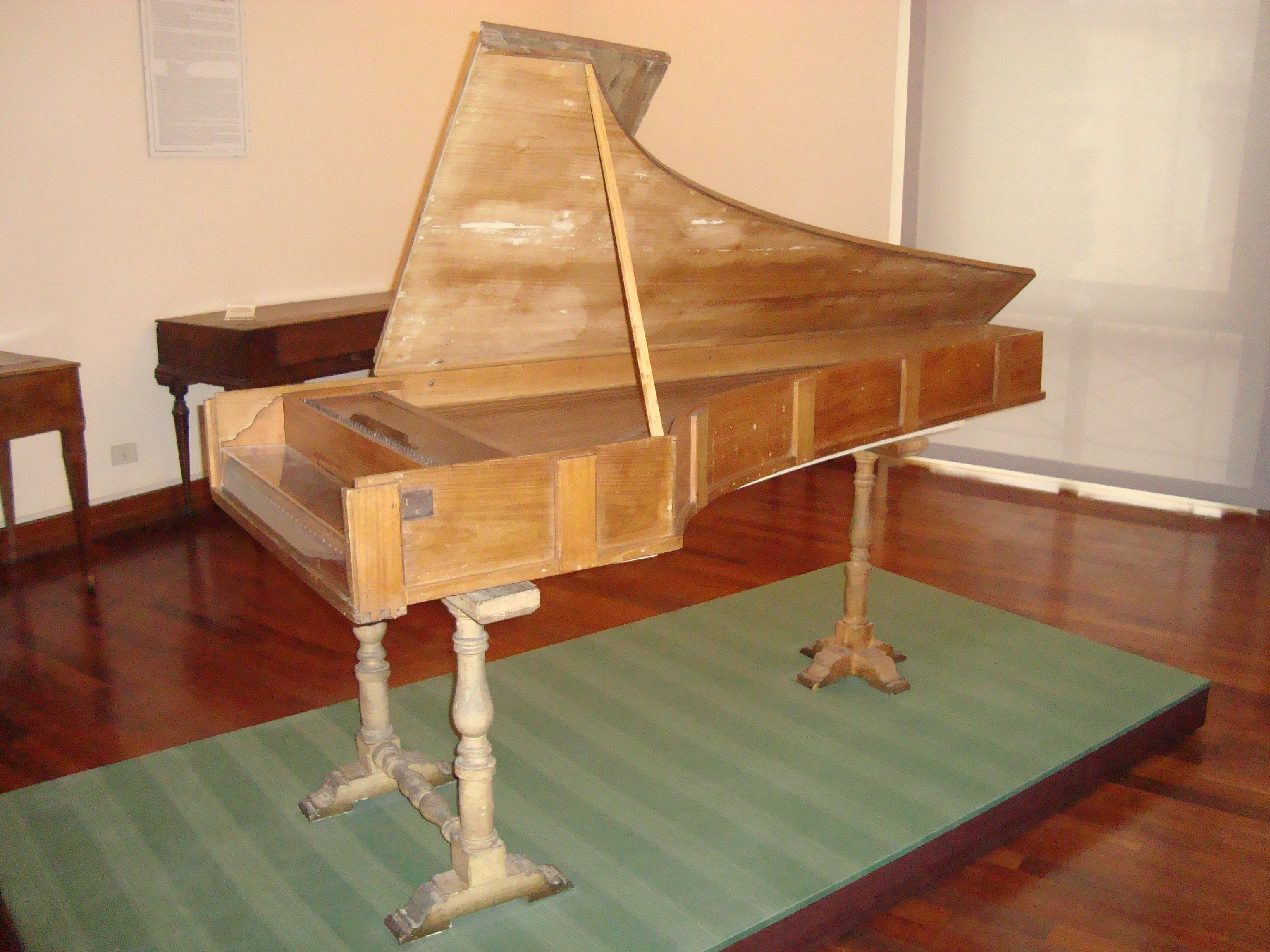 Piano forte by Bartolomeo Cristofori manufactured in 1722, Museo Nazionale degli Strumenti Musicali di Roma